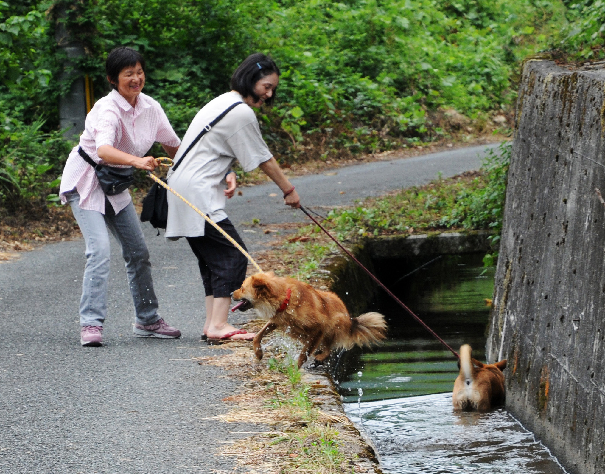 16th Aug 2008 at Sōryō Town, Shōbara City, Hiroshima